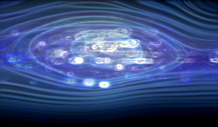 Tim White-Sobieski, Terminal V (Terminal Heart); Video Still; 2003